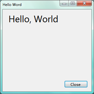 A Hello World App Window